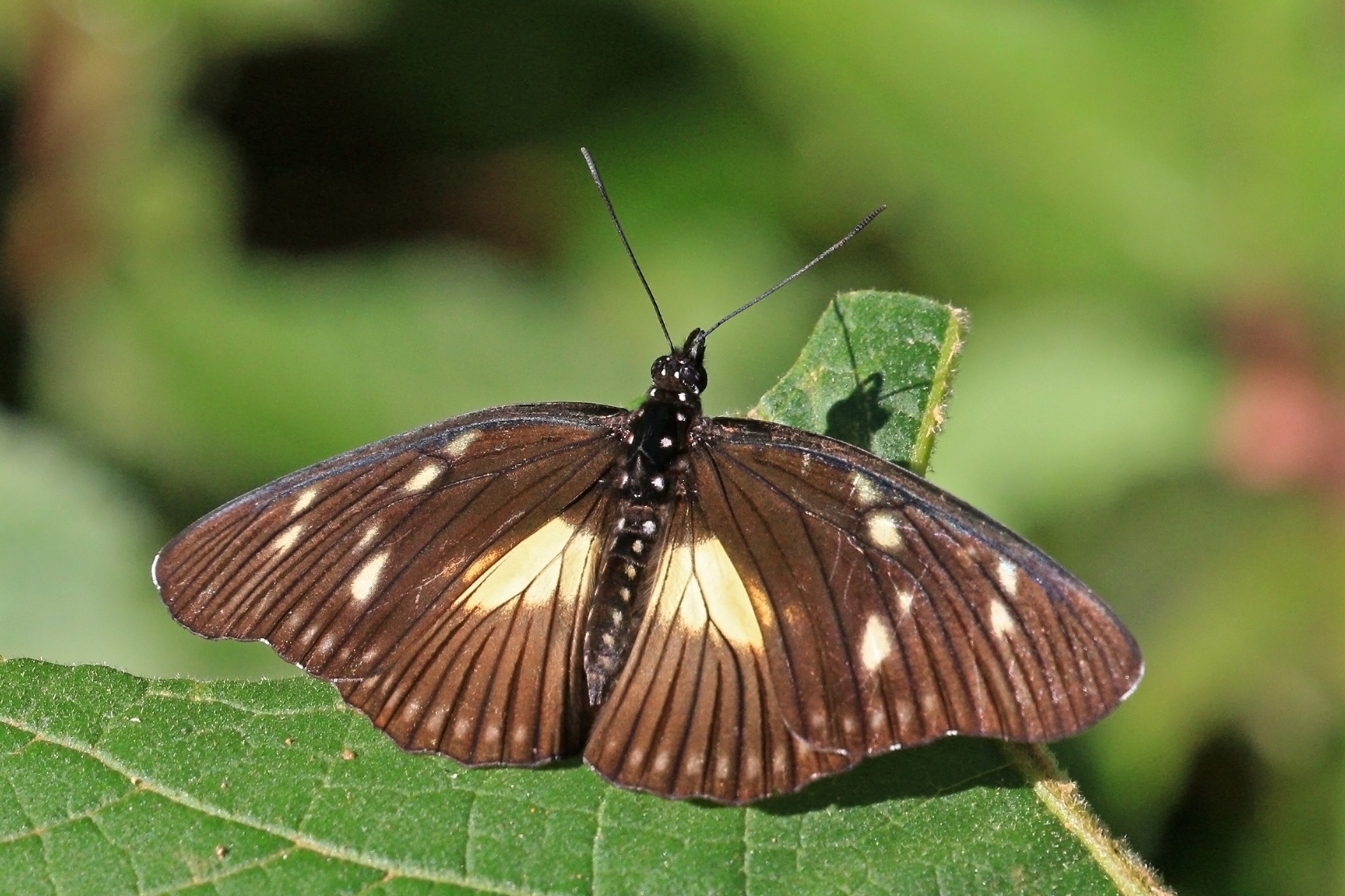 False chief (Pseudacraea lucretia protracta) male, Kakamega Forest, Kenya